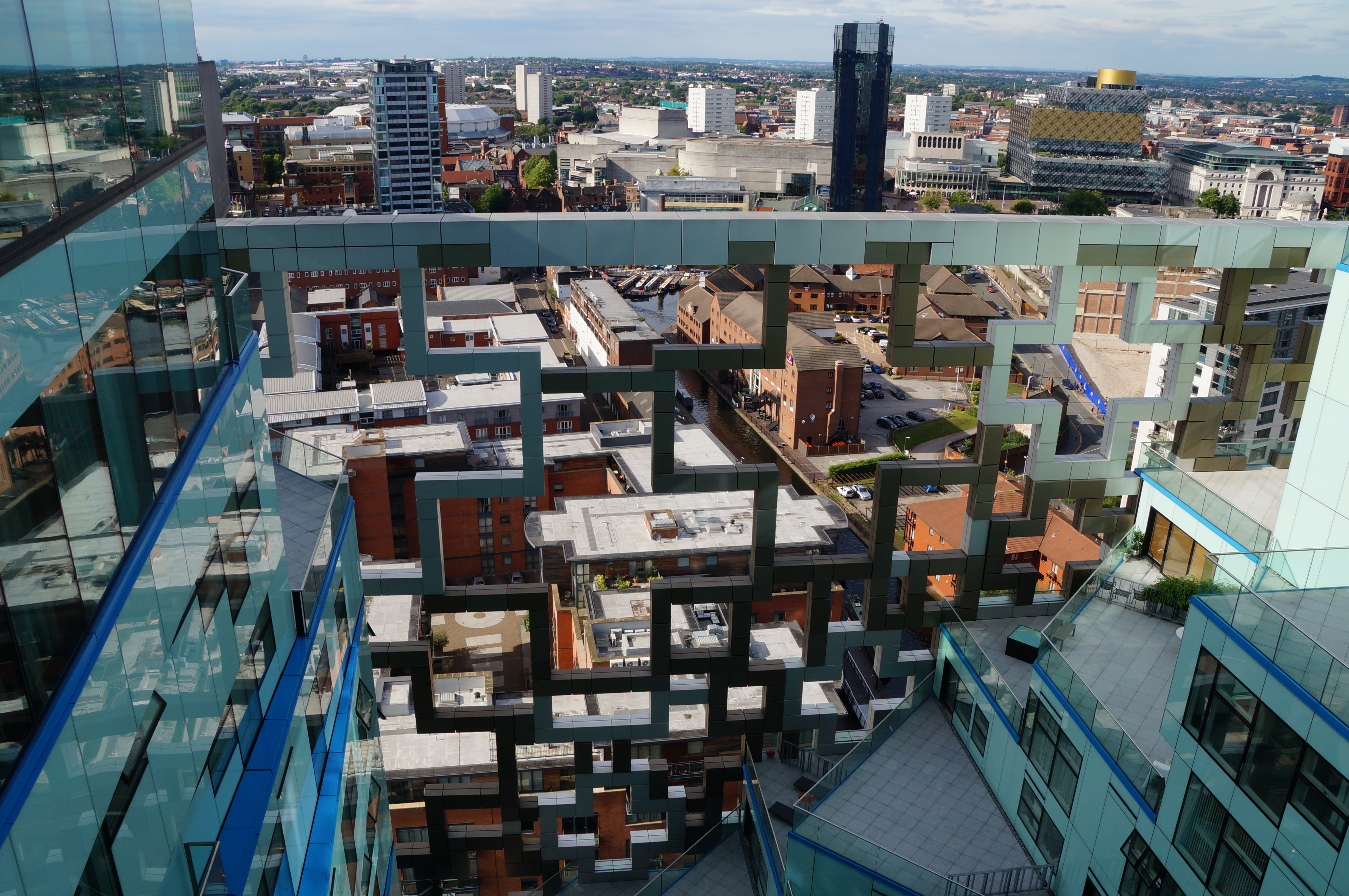 View from level 25 of The Cube, Birmingham, England, looking north west. Visible above the top bar, which more or less obscures the line of Broad Street (left to right): Flares nightclub (former Second Church of Christ Scientist), Ikon Gallery, Quayside Tower (in front of National Indoor Arena), Spring Hill Library (mid-distance), Symphony Hall, Hyatt Regency, Rep, Library of Birmingham, Baskerville House, right horizon: Barr Beacon. Below top bar in centre: Gas Street Basin.